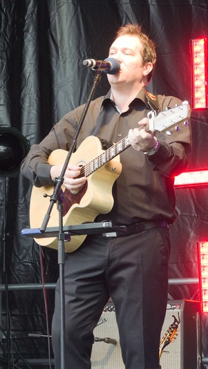 Finbarr Clancy plays the guitar and sings at the Iveagh Gardens, Donegal during a High Kings concert in 2011.